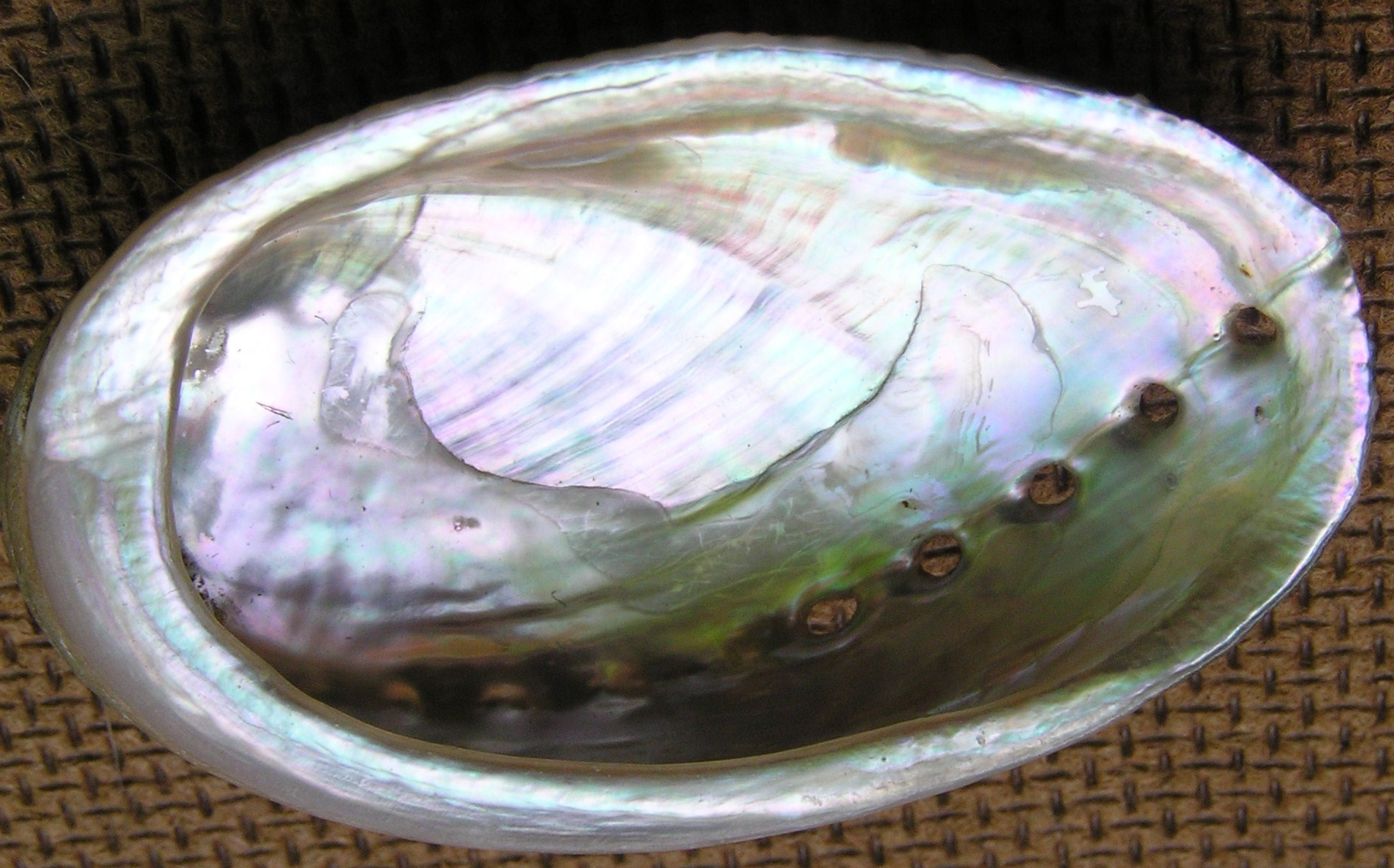 Photo of the shell of Haliotis virginea. Locality: Philippines, Own Collection. Philippines. Cebu.